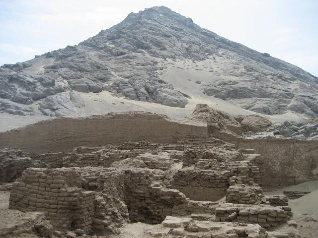 Top level of the "huaca de la Luna" with the Cerro Blanco in background. La Libertad, Peru.